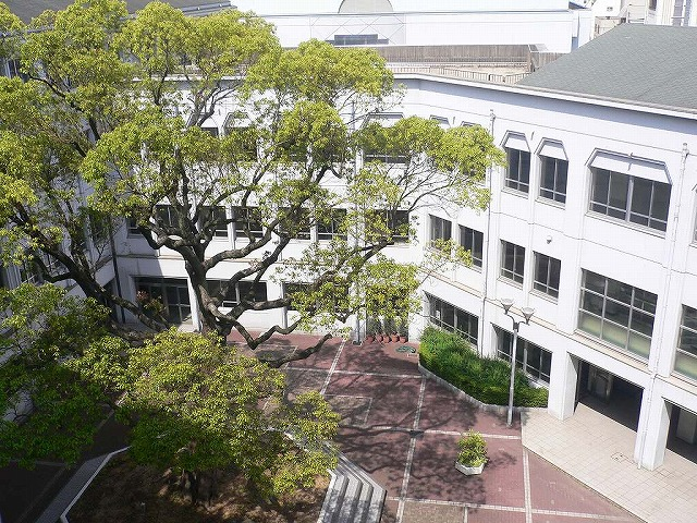 Shimizudani High School, Osaka, Japan(Schoolhouse and Camphor tree)